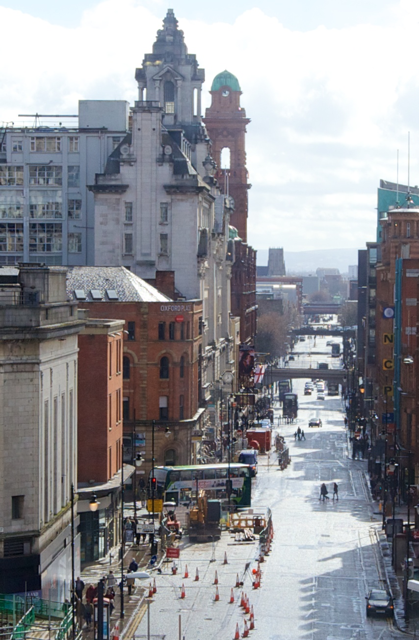 View from Manchester Central Library down Oxford Street/Road in 2014